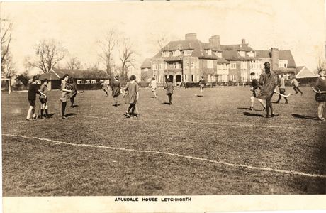 Scan of a 1924 photographic postcard